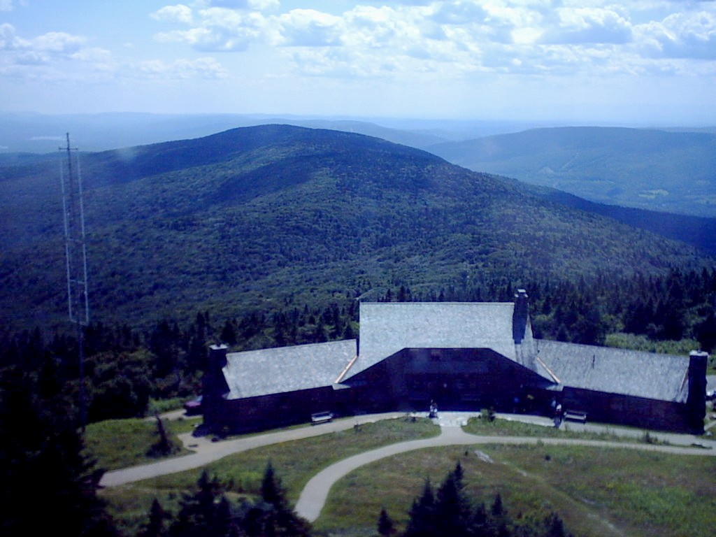 Mount Greylock summit. Also on Appalachian Trail.